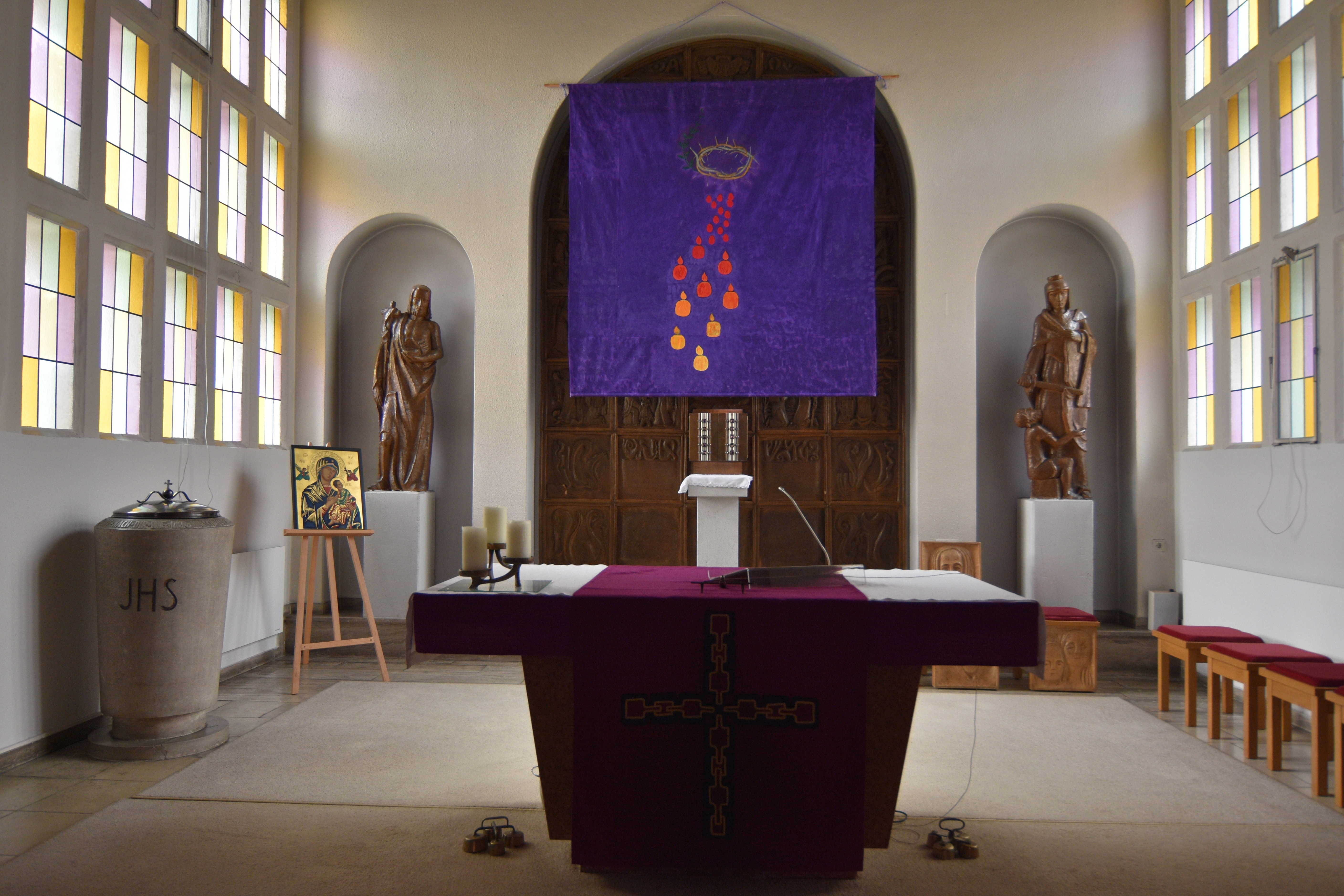 Church Stoob - Interior